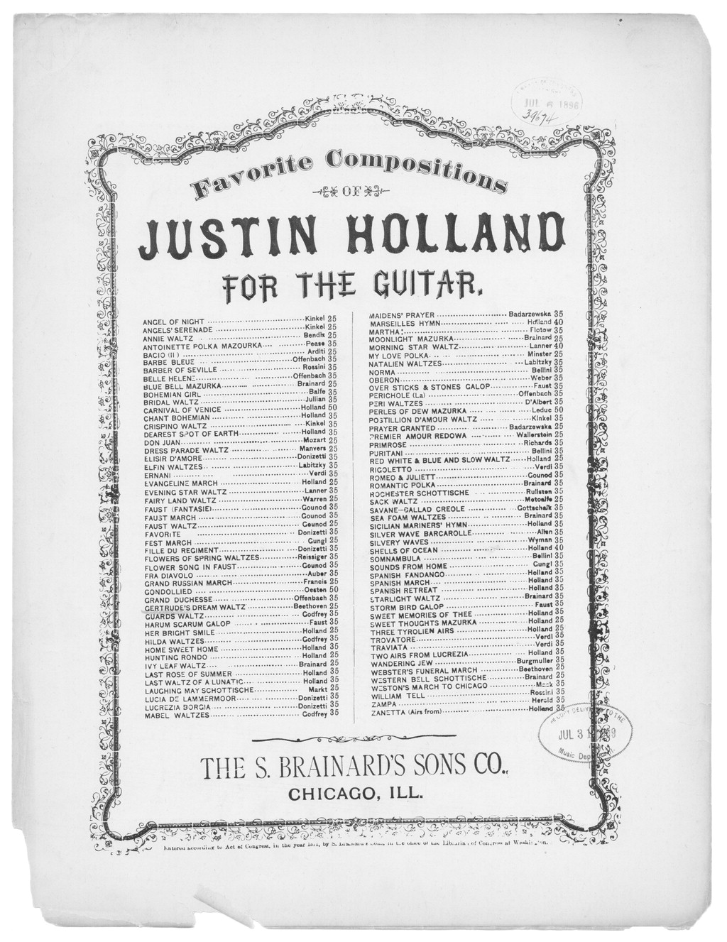 List of Justin Holland arranged sheet music from cover of Giertrude's dream waltz, published by S. Brainard's Sons